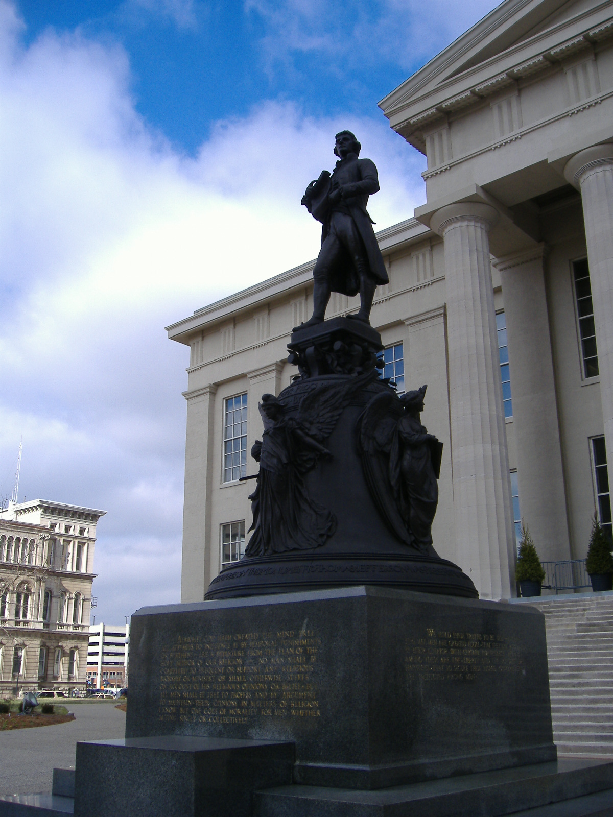 Statue of Thomas Jefferson in Louisville, Kentucky, at Louisville Metro Hall. Erected 1901.